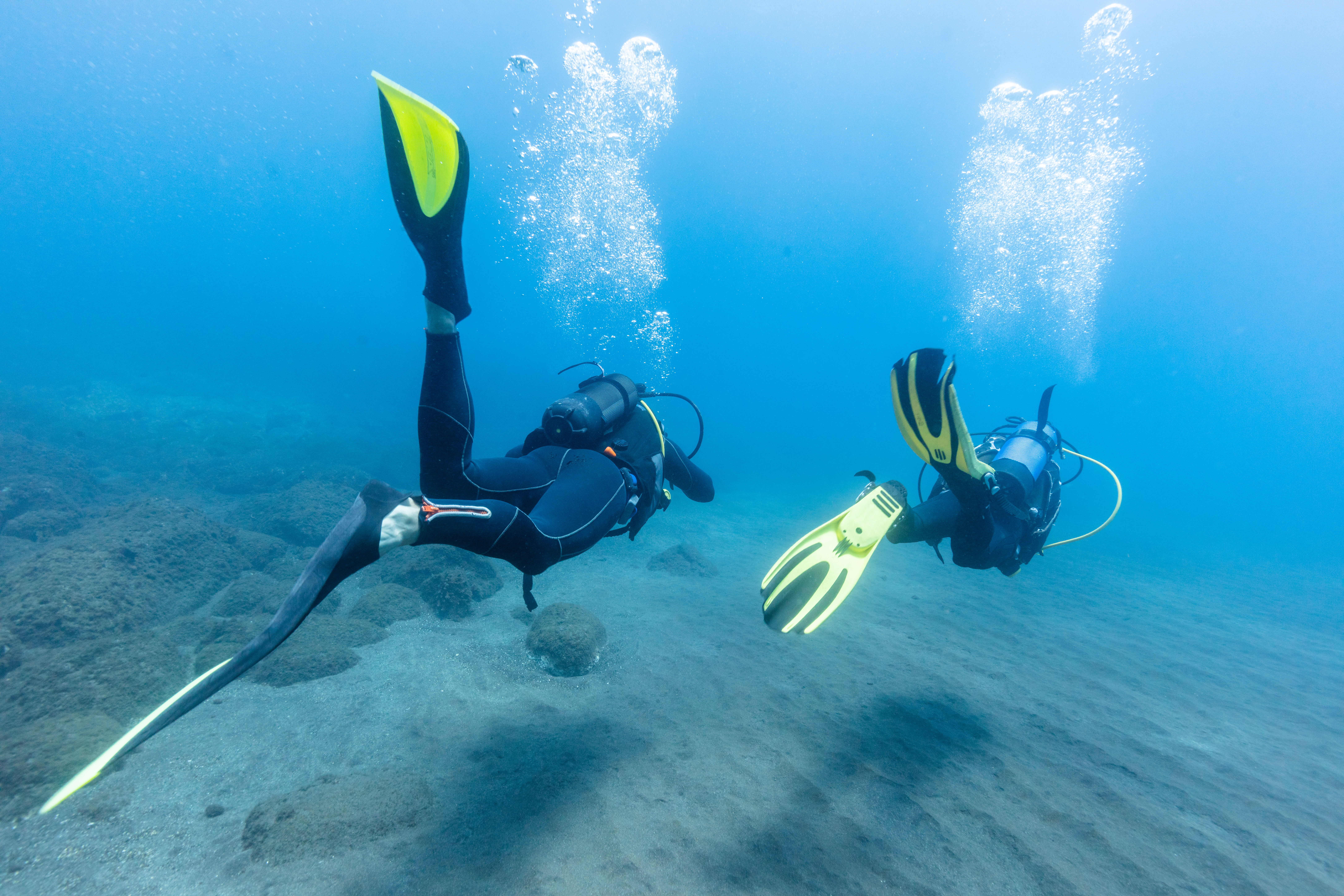 Divers, Madeira, Portugal